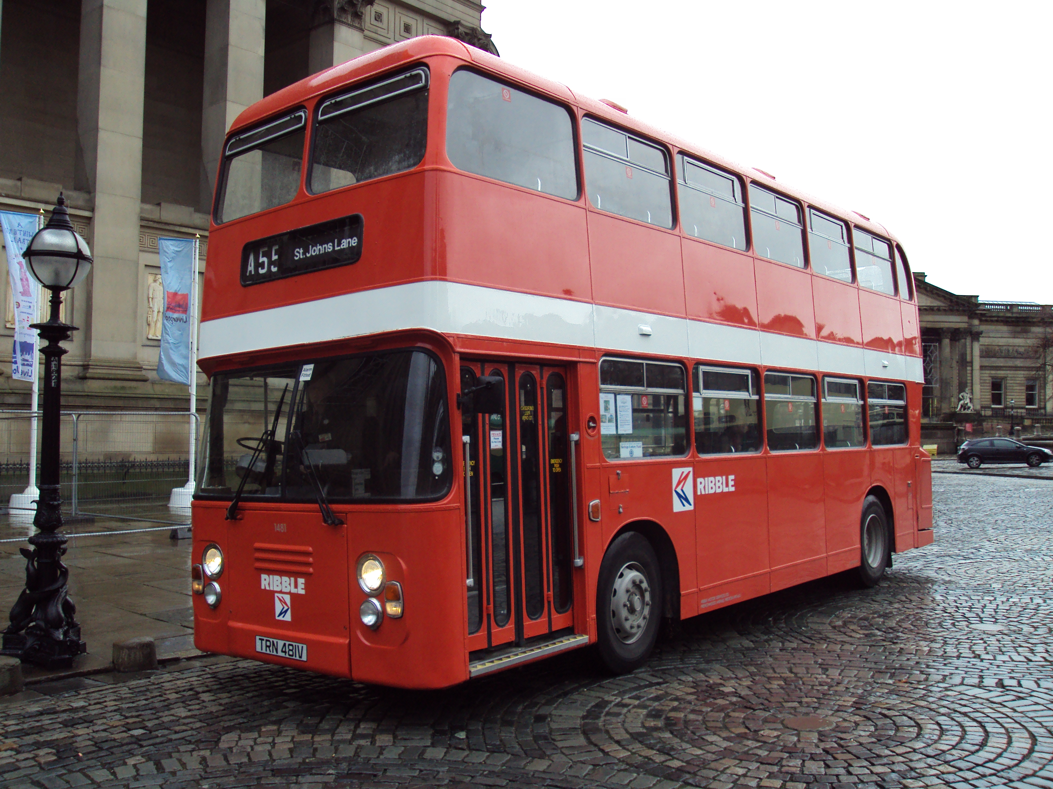 Photo taken at the Merseyside Passenger Transport Executive 40th anniversary event at St Georges Plateau, Liverpool.